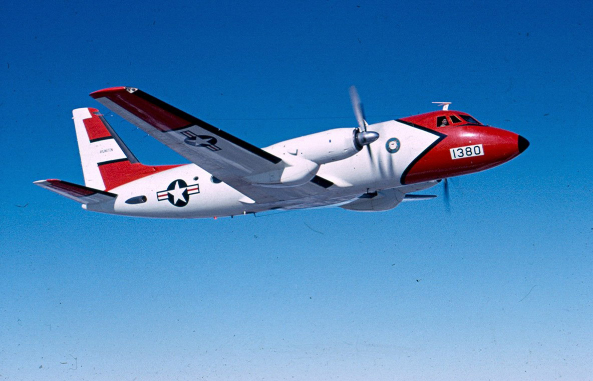 Grumman Gulfstream I, "VC-4A #1380in flight, 20 January 1964."